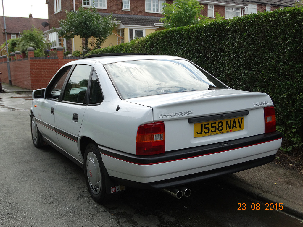 88 to 92 Cavalier SRi